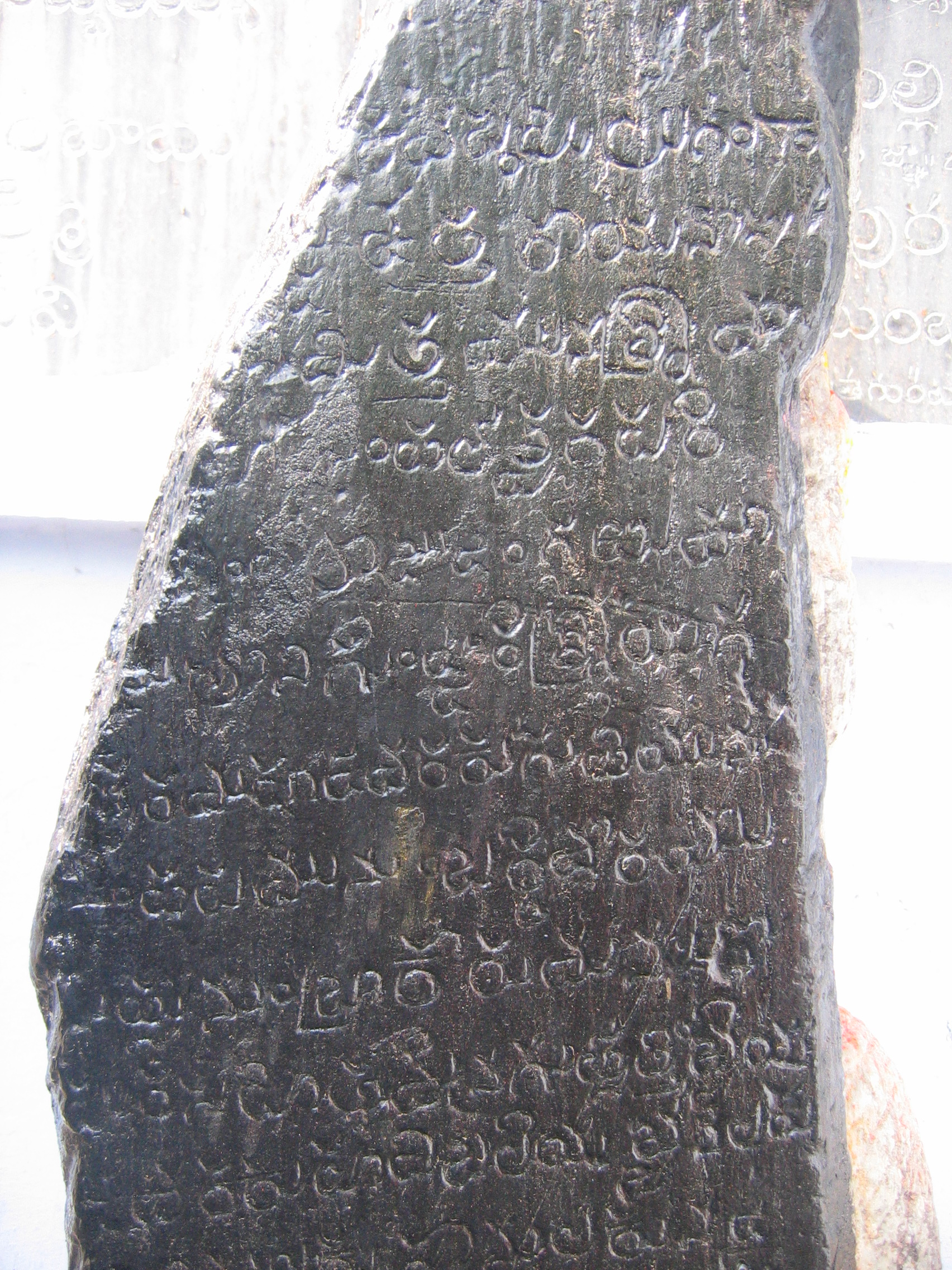 Nagalipi inscriptions in the old temple of Sivalayam.